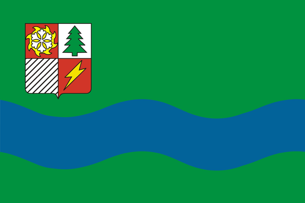 Flag of Srednekansky rayon, Magadan oblast, Russia